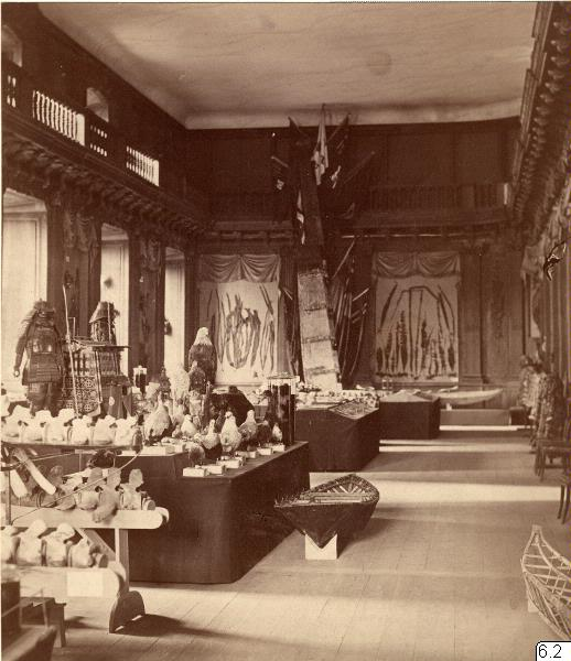 Interior from the Vega exhibition at the Stockholm Royal Palace 1880, objects from the Vega expedition